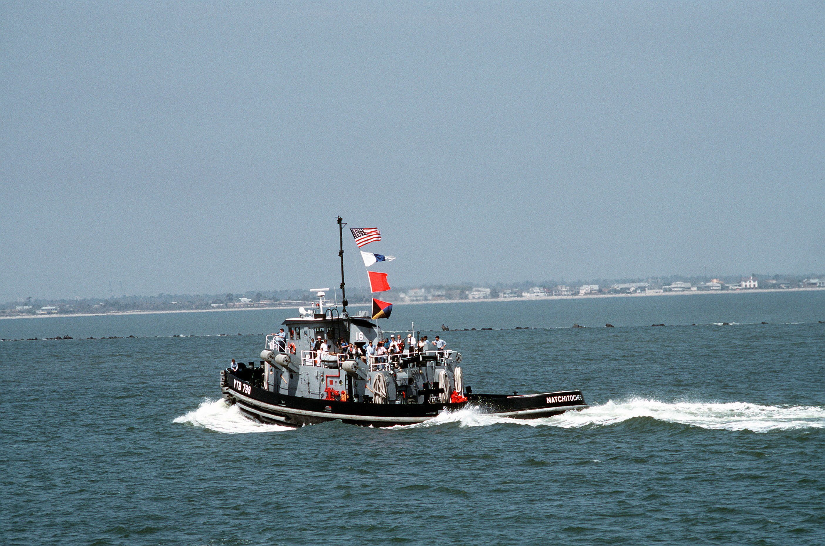 Natchitoches (YTB-799) heads across Charleston harbor with reporters and cameramen aboard. The media personnel are covering the return of the guided-missile destroyer USS Macdonough (DDG-39) and the guided-missile frigate USS Nicholas (FFG-47) to Naval Station Charleston, South Carolina. The two ships left Charleston on September 21, 1990, for the Persian Gulf, where they served in Operation Desert Shield and Operation Desert Storm. DVIC photo # DN-ST-91-06712 (22 March 1991) , a US Navy photo by JO2 Oscar Sosa USN, now in the collections of the Defense Visual Information Center.